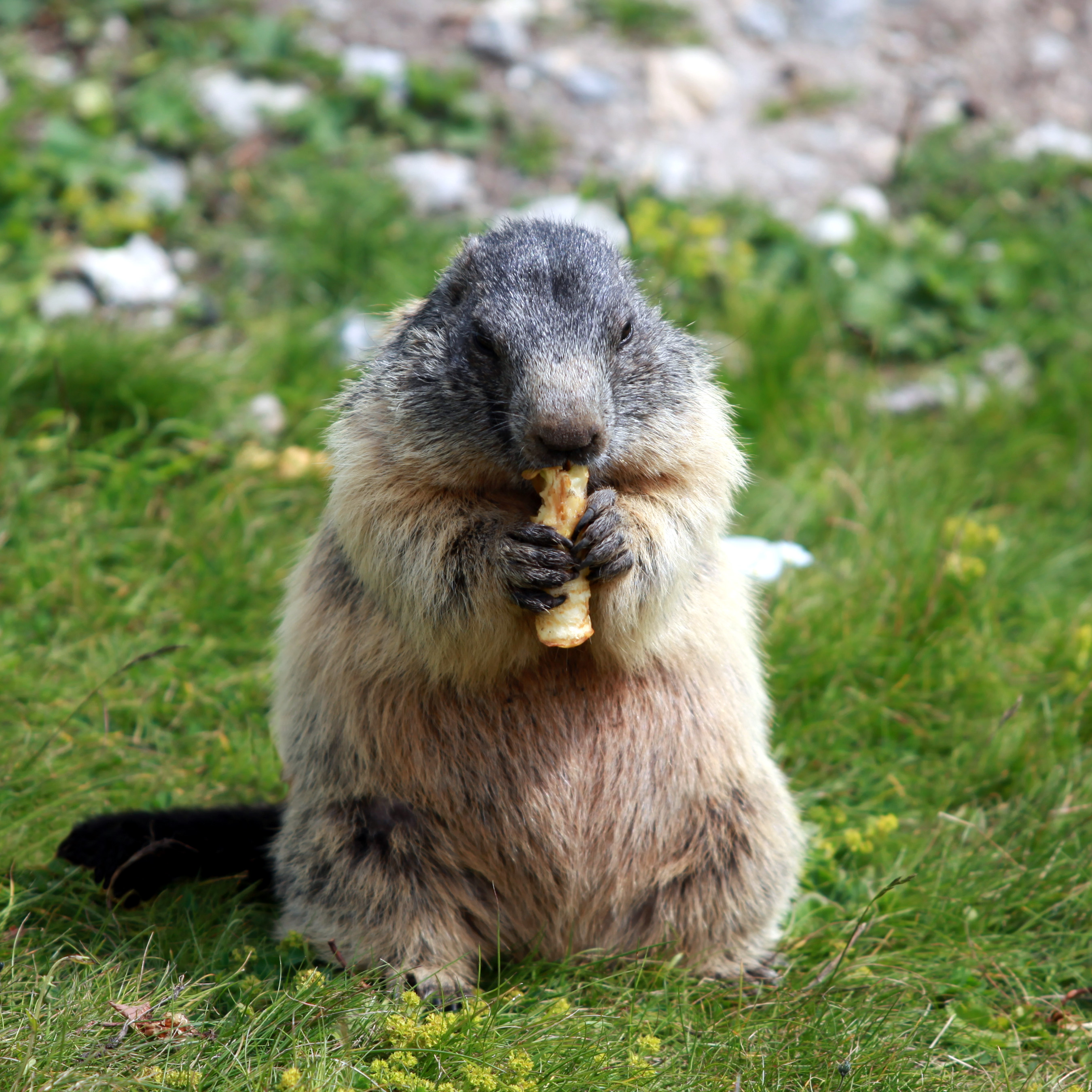 Alpine Marmot at the Grimselpass.